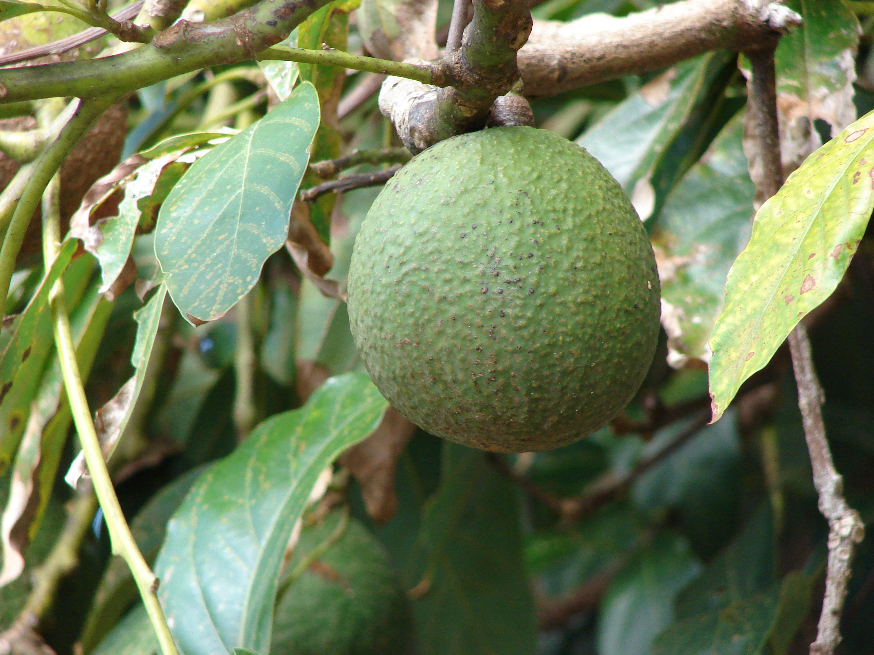 Persea americana (fruit). Location: Maui, Makawao